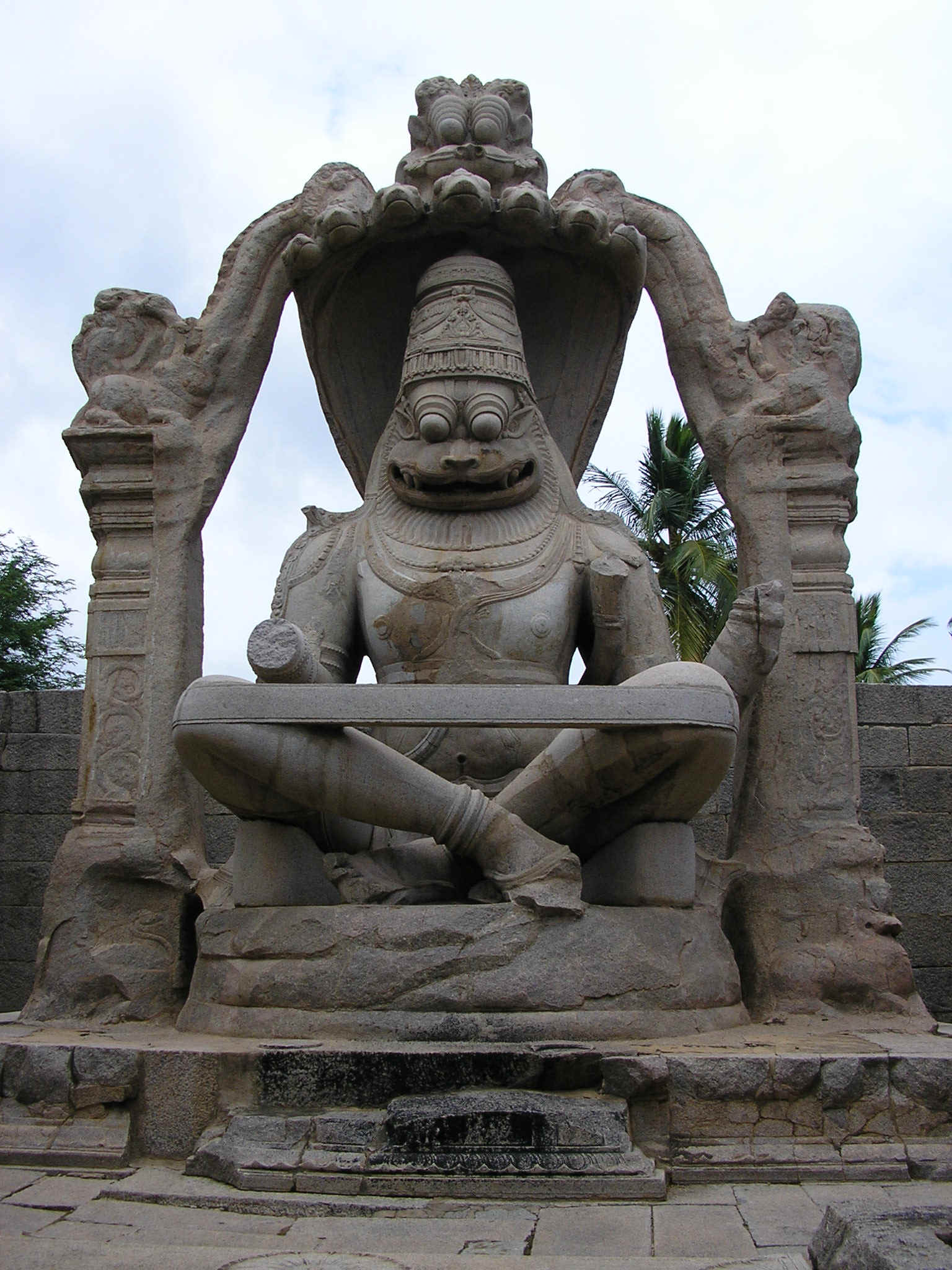 A statue of the Narasimha at Hampi Source : self -taken Although the statue was originally identified as Ugra-Narasimha, now it is confirmed after further research that it is LAKSHMI-NARASIMHA and not UGRA-NARASIMHA. The hand of Lakshmi, who was supposed to be sitting on the lap of Narasimha, can be clearly seen.